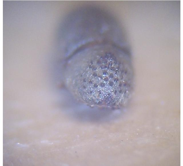 Cryphalus_saltuarius_frontal.